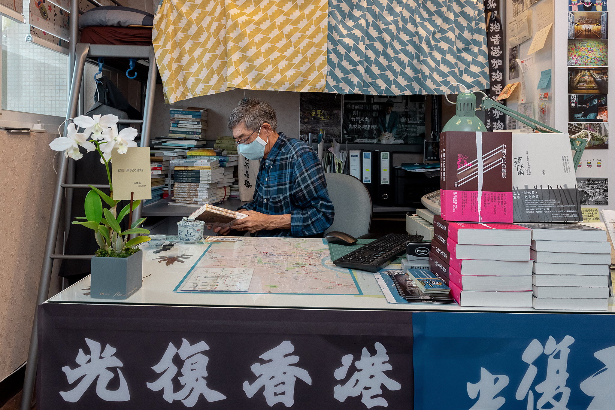 Official Photo by Makoto Lin / Office of the President